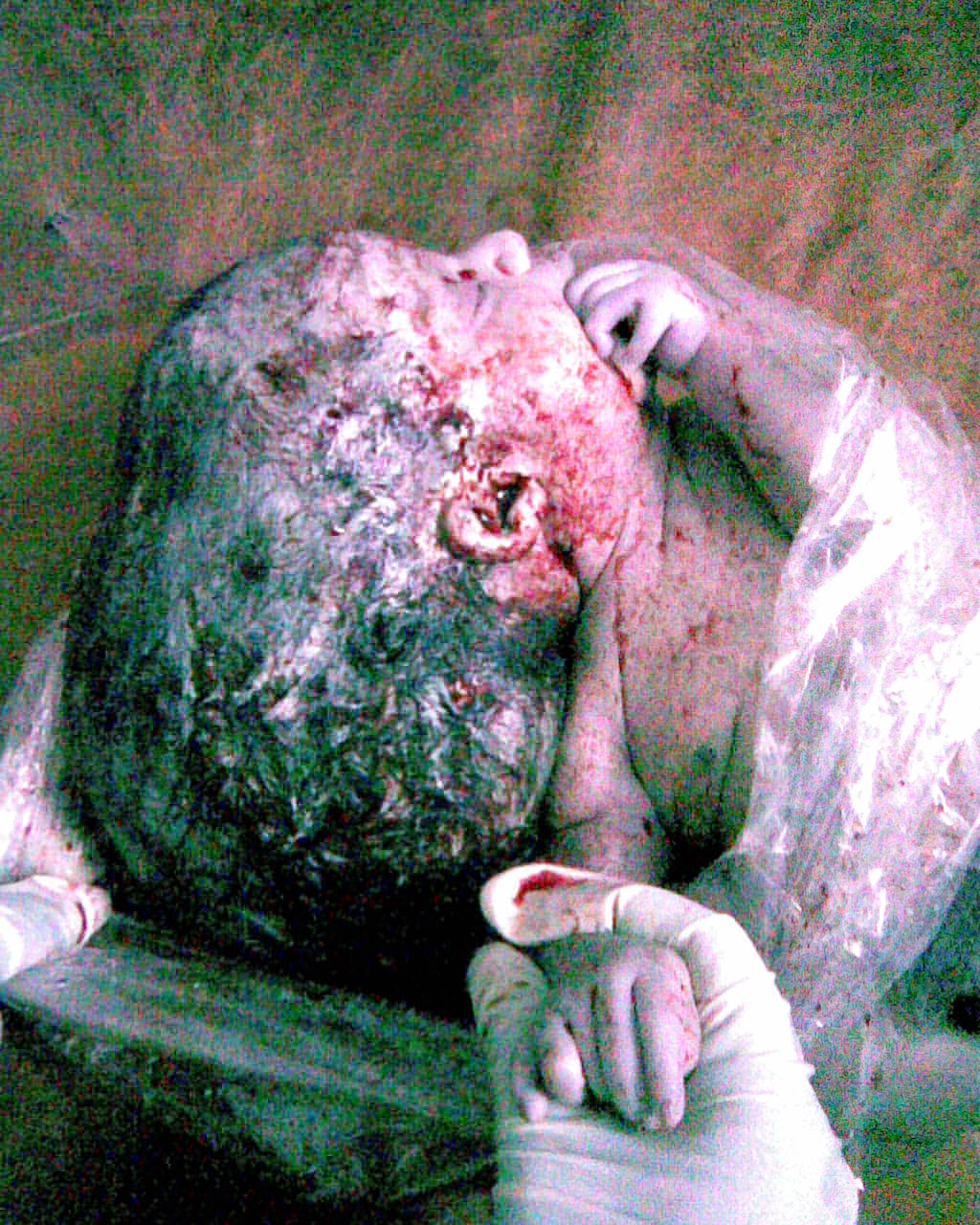 Porencephaly It was delivered vaginally by me in my hospital 22 Dec 2007 weighing 4.25 kg.